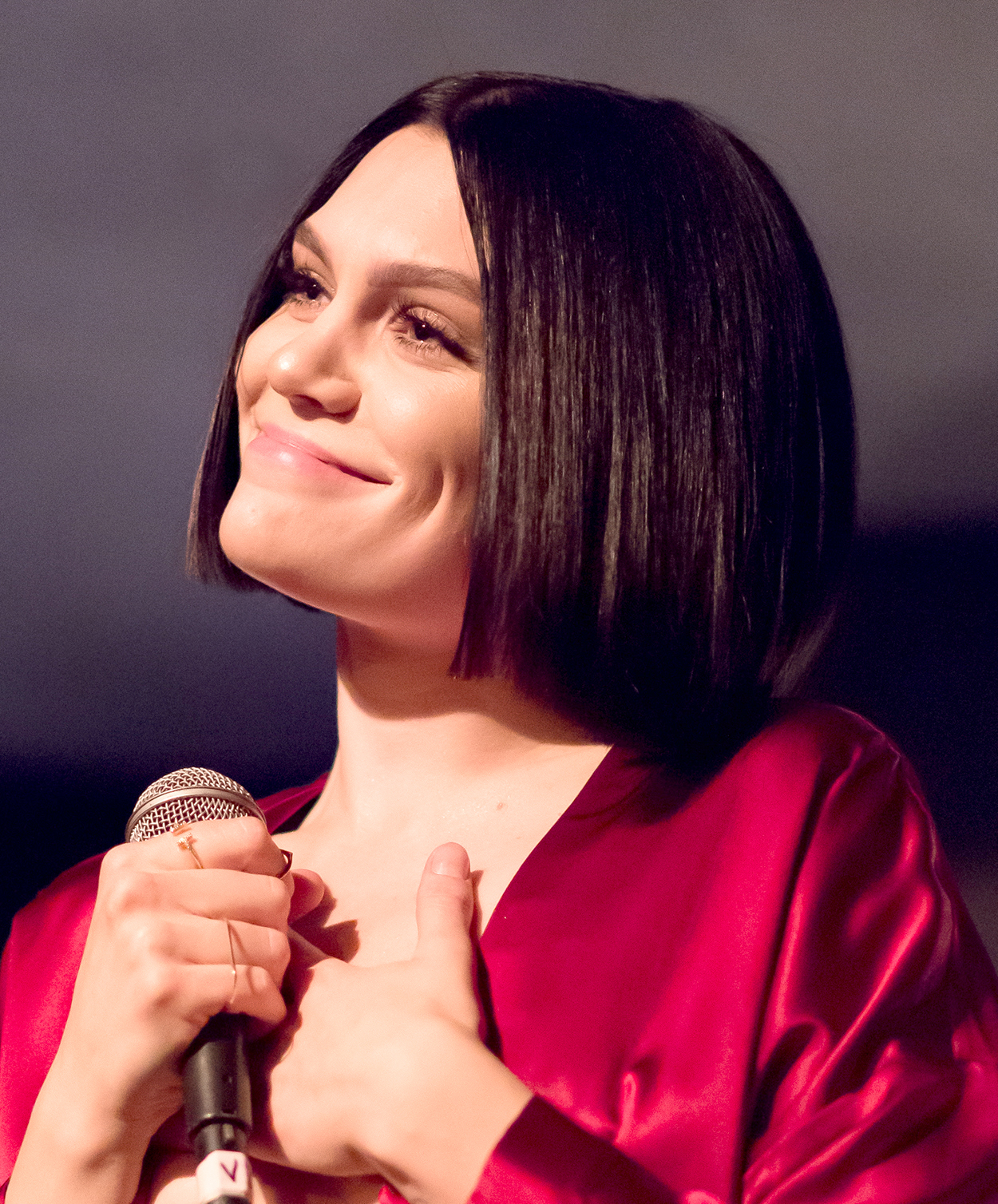 Jessie J performing live at The Peppermint Club in Los Angeles, California, on Sunday, December 17, 2017.